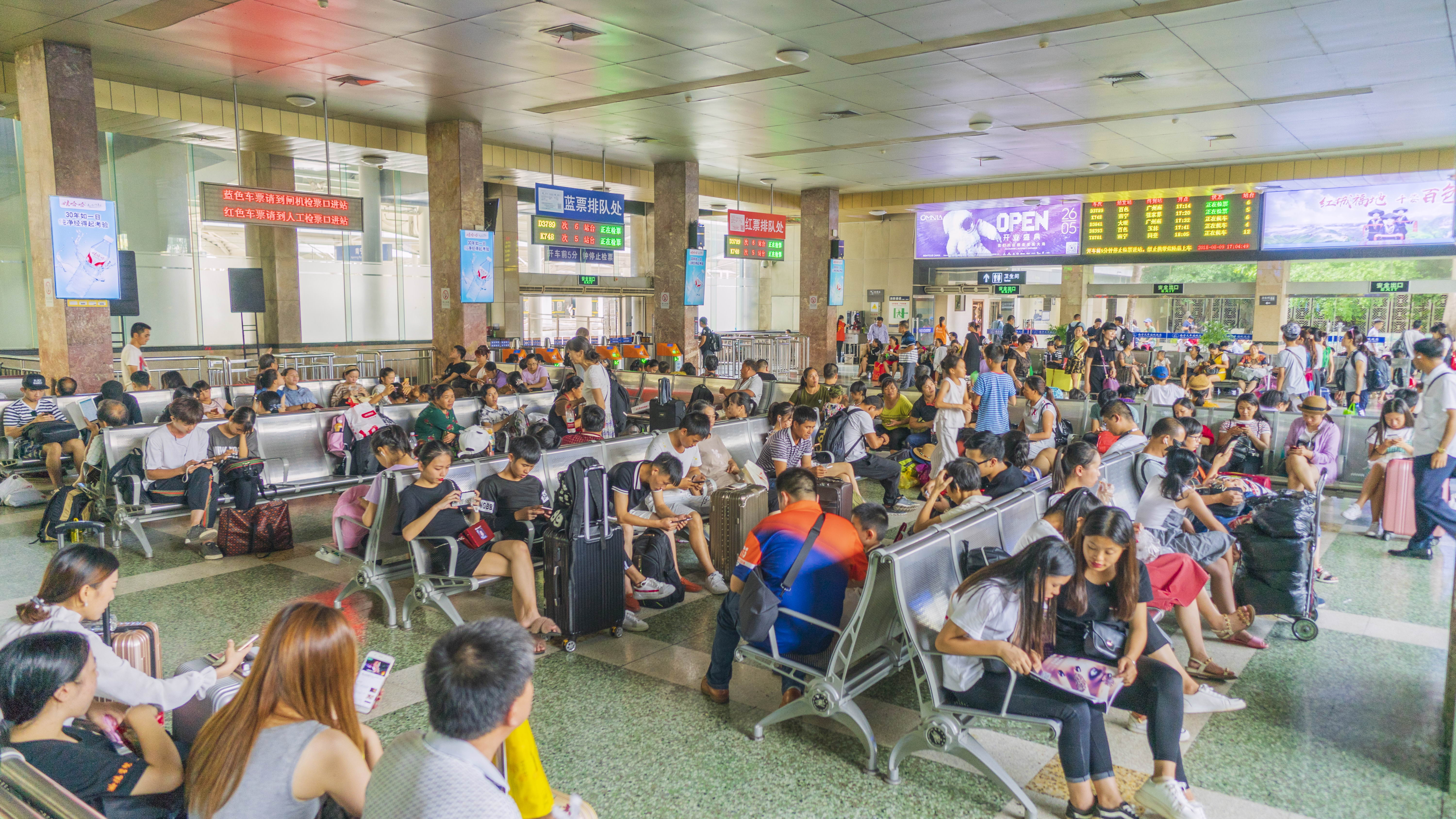 Nanning, China